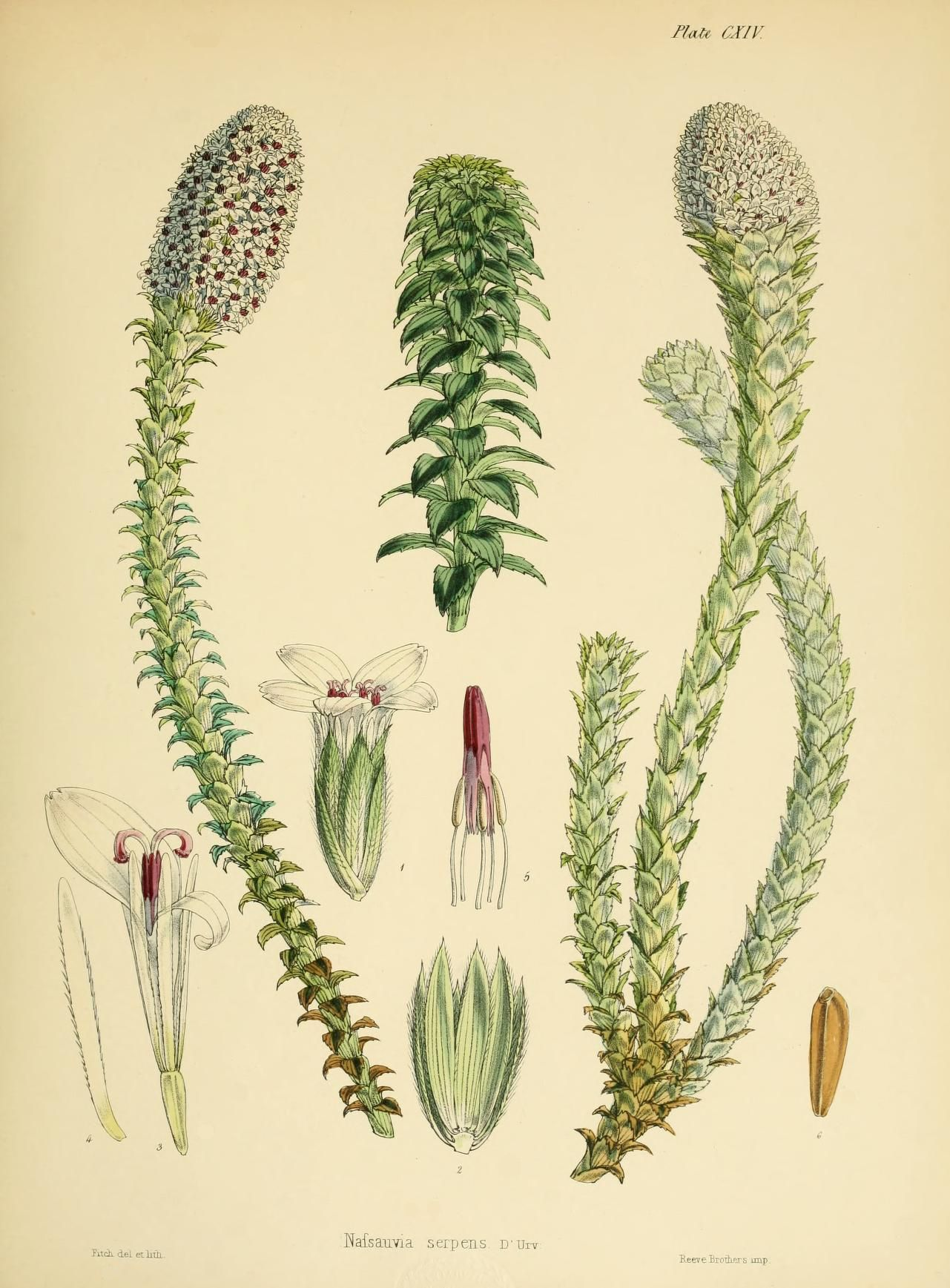 jpg of Plate CXIV of Hooker's Flora Antarctica. Nassauvia serpens D'Urv